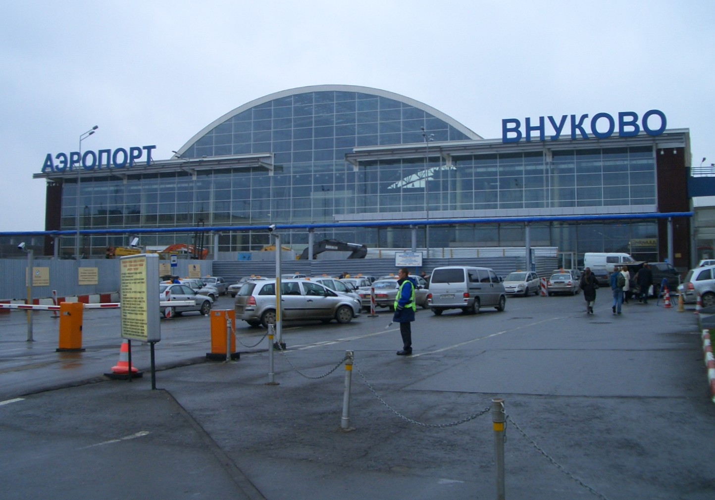 Main building of Vnukovo International Airport, Moscow, October 2006